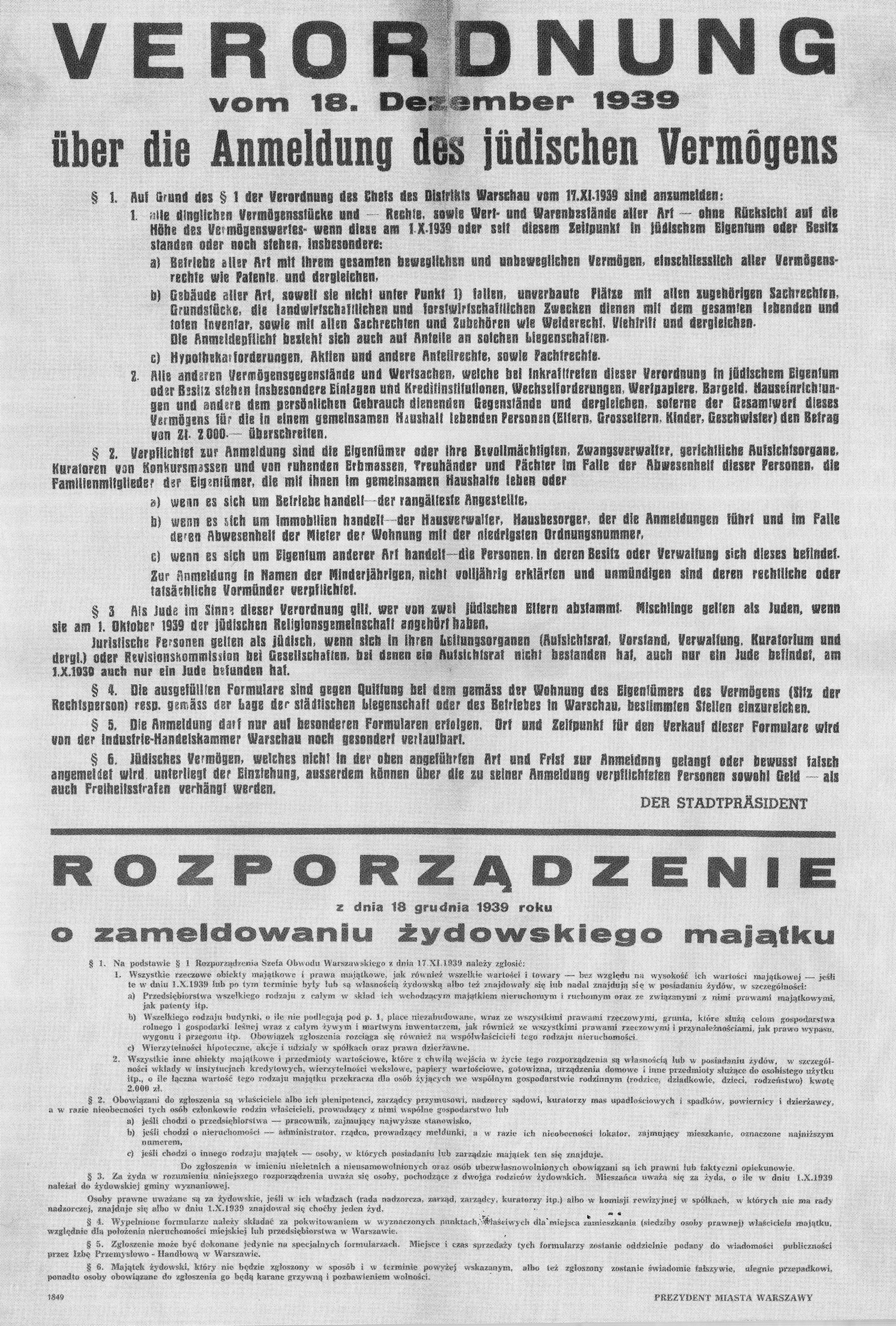 Regulation of the German mayor of Warsaw on the registration of Jewish property